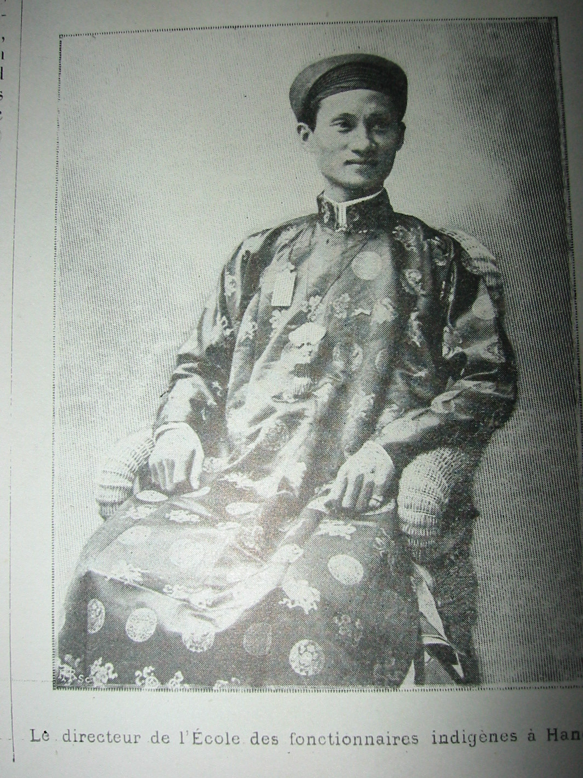 Director of Haubo School (École des fonctionnaires indigenes) in Hanoi